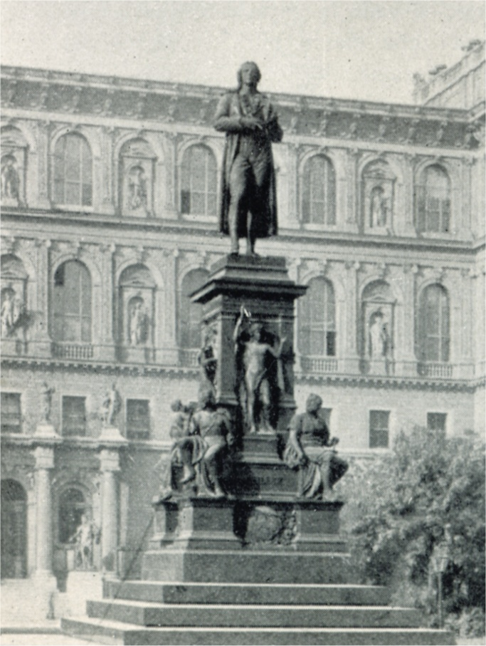 The monument for Friedrich Schiller in front of the Akademie der bildenen Künste in Vienna